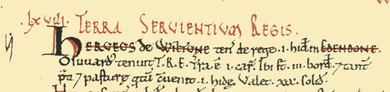 This is an extract of the Domesday Book (of 1086)entry for Edington, Wiltshire, identified as Edendone, Wilt'schire in the text.